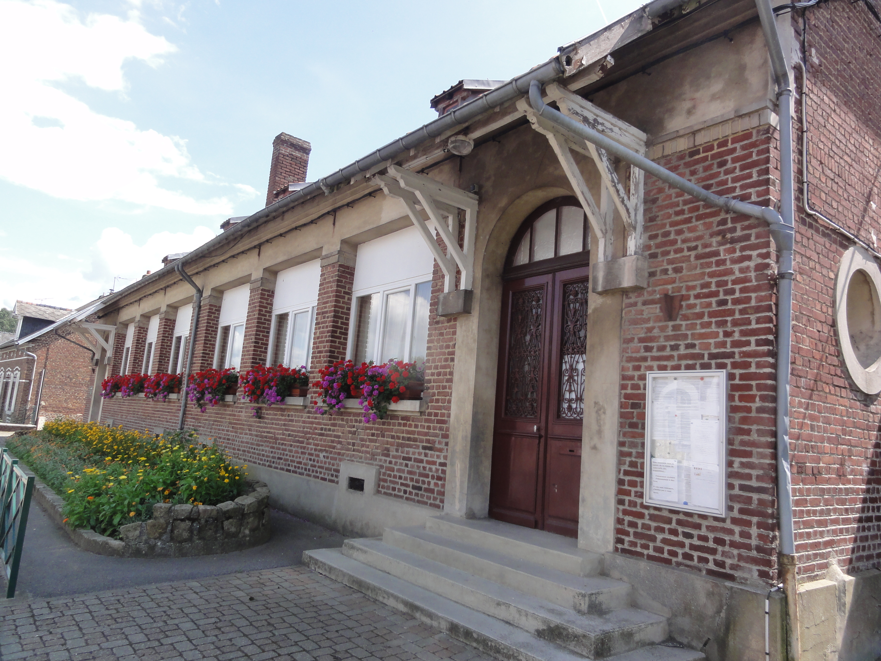 Abbécourt (Aisne) école